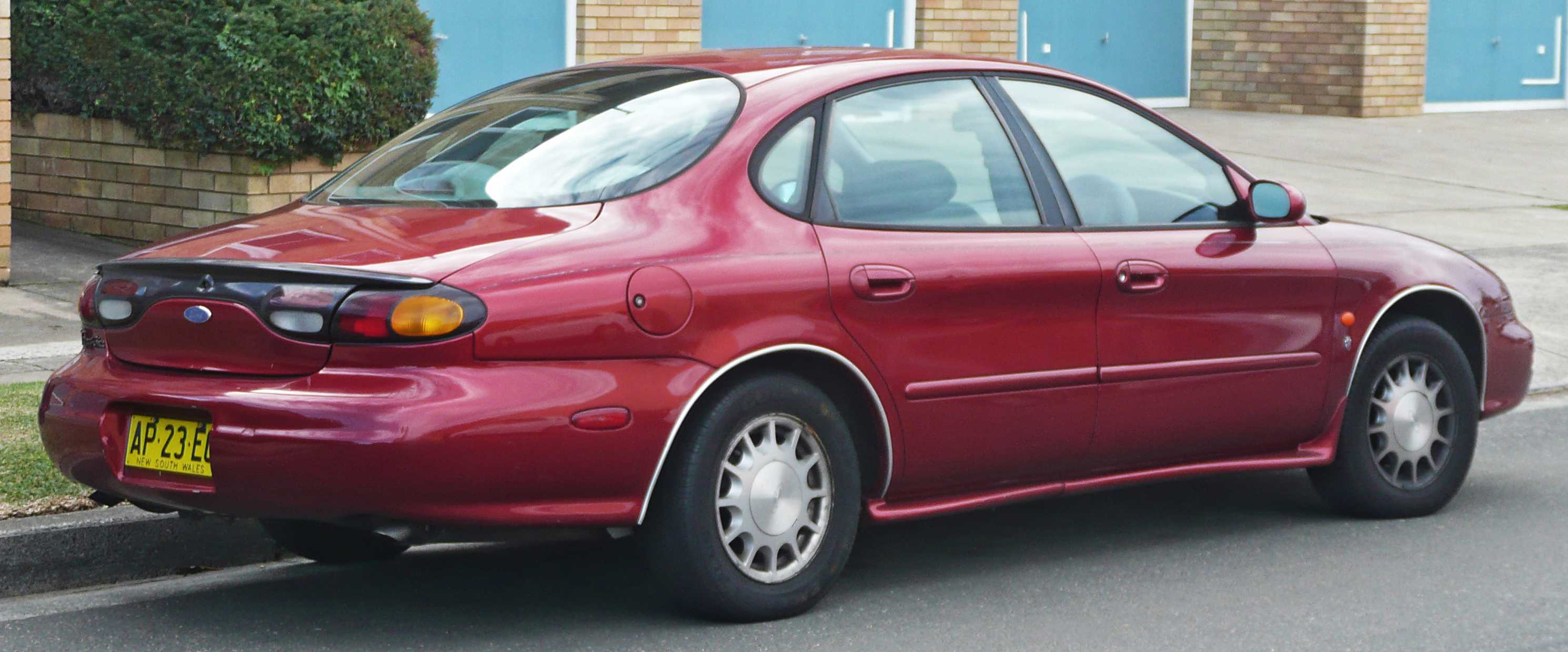 1996 Ford Taurus (DP) Ghia sedan. Photographed in Cronulla, New South Wales, Australia.